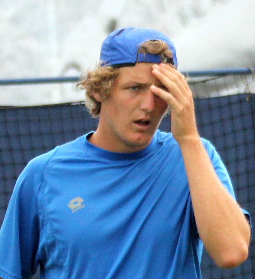 011 Rhett Purcell of Great Britain